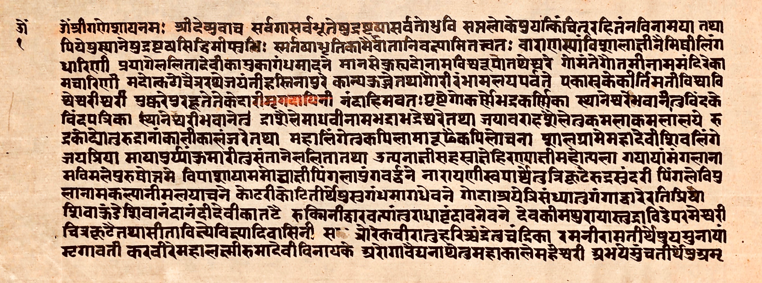 This is a page from the Matsya Purana manuscript. Language: Sanskrit Script: Devenagari This manuscript was acquired in the 19th-century, and was produced in or before the acquisition. The photo above is of a 2D artwork from the text that was itself authored more than 500 years ago. Therefore Wikimedia Commons PD-Art licensing guidelines apply. Any rights I have as a photographer is herewith donated to wikimedia commons under CC 4.0 license.